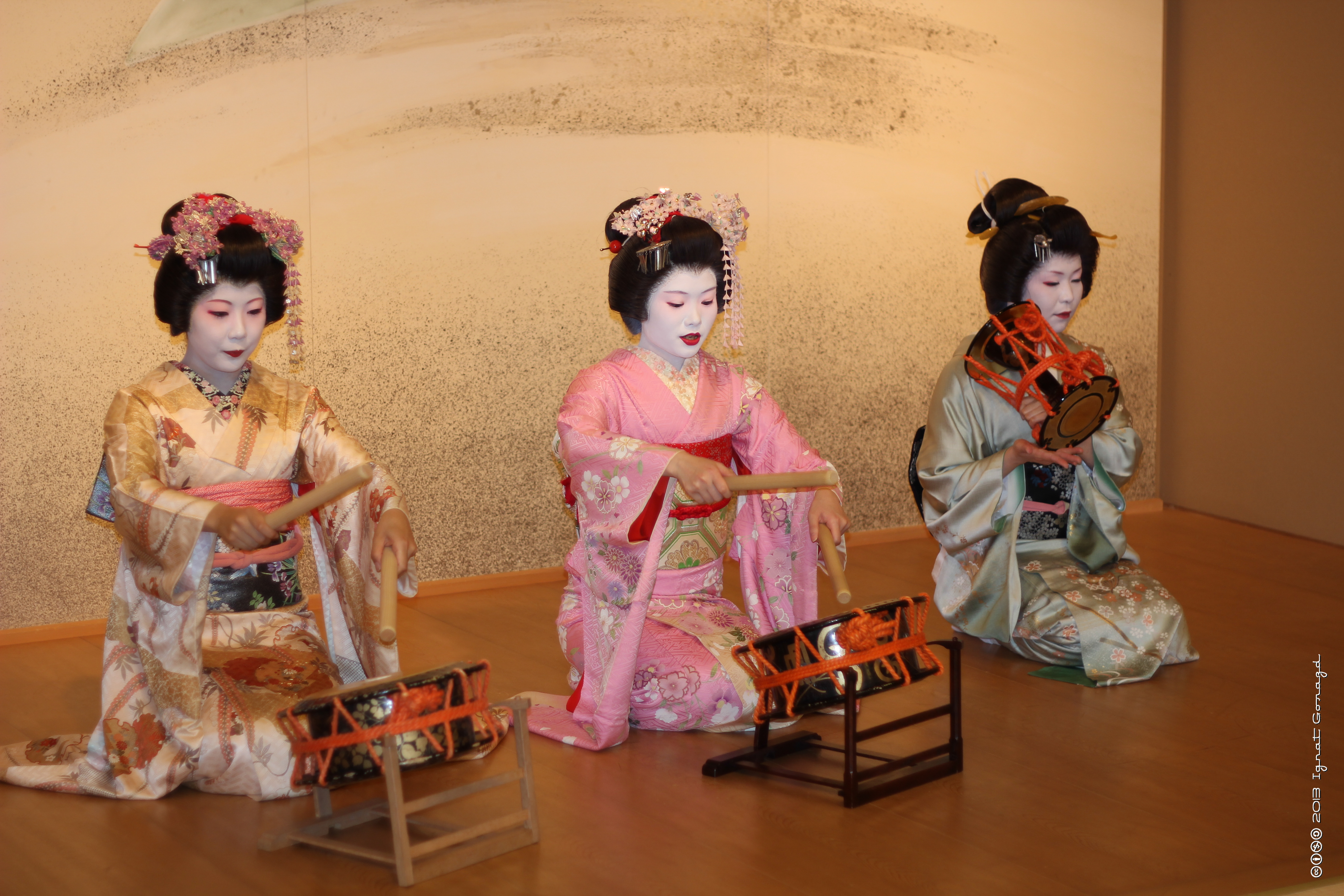 Two hangyoku and a geisha from Asakusa, Tokyo